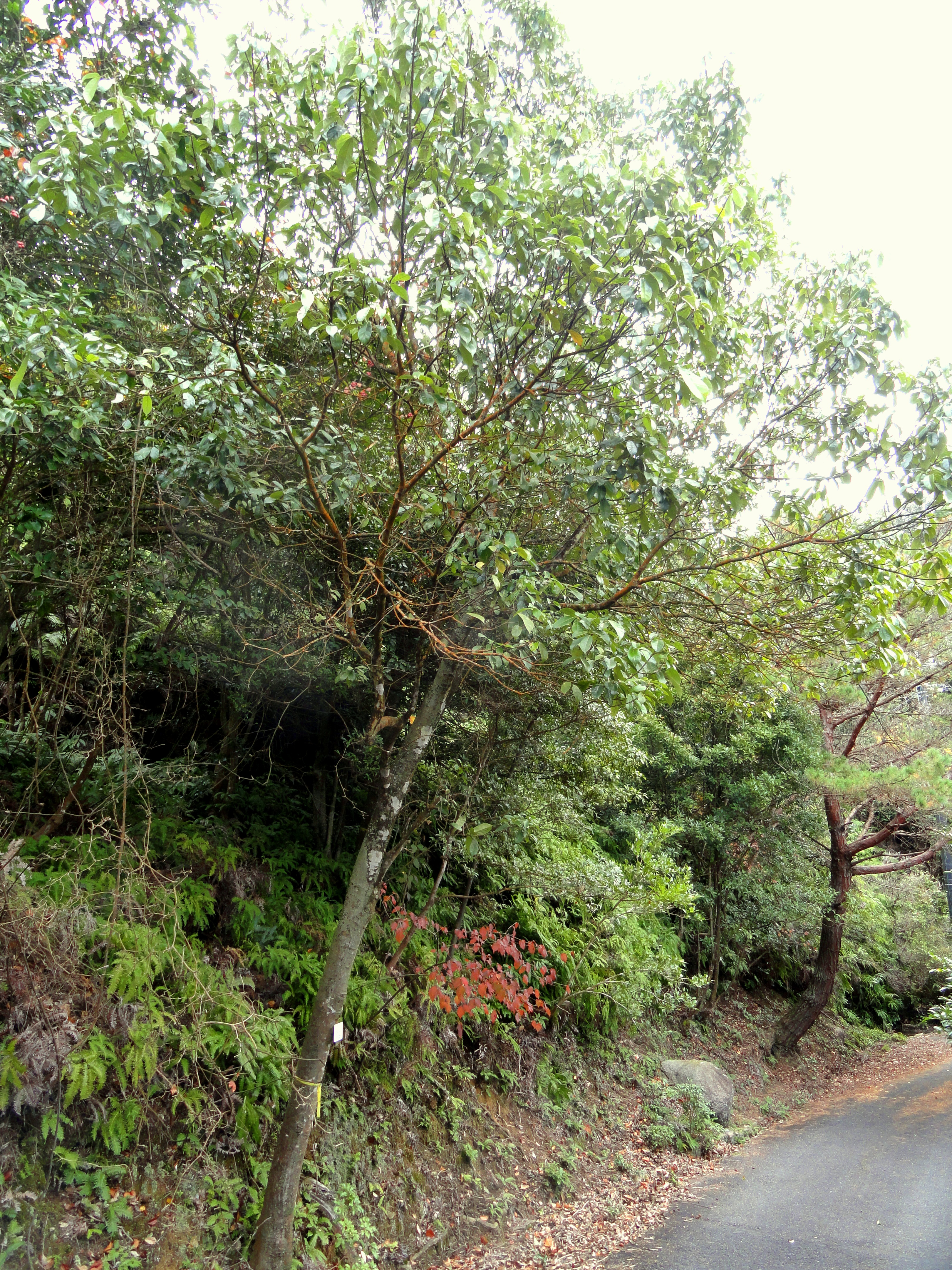 Botanical specimen in the Miyajima Natural Botanical Garden, Hatsukaichi, Hiroshima, Japan.